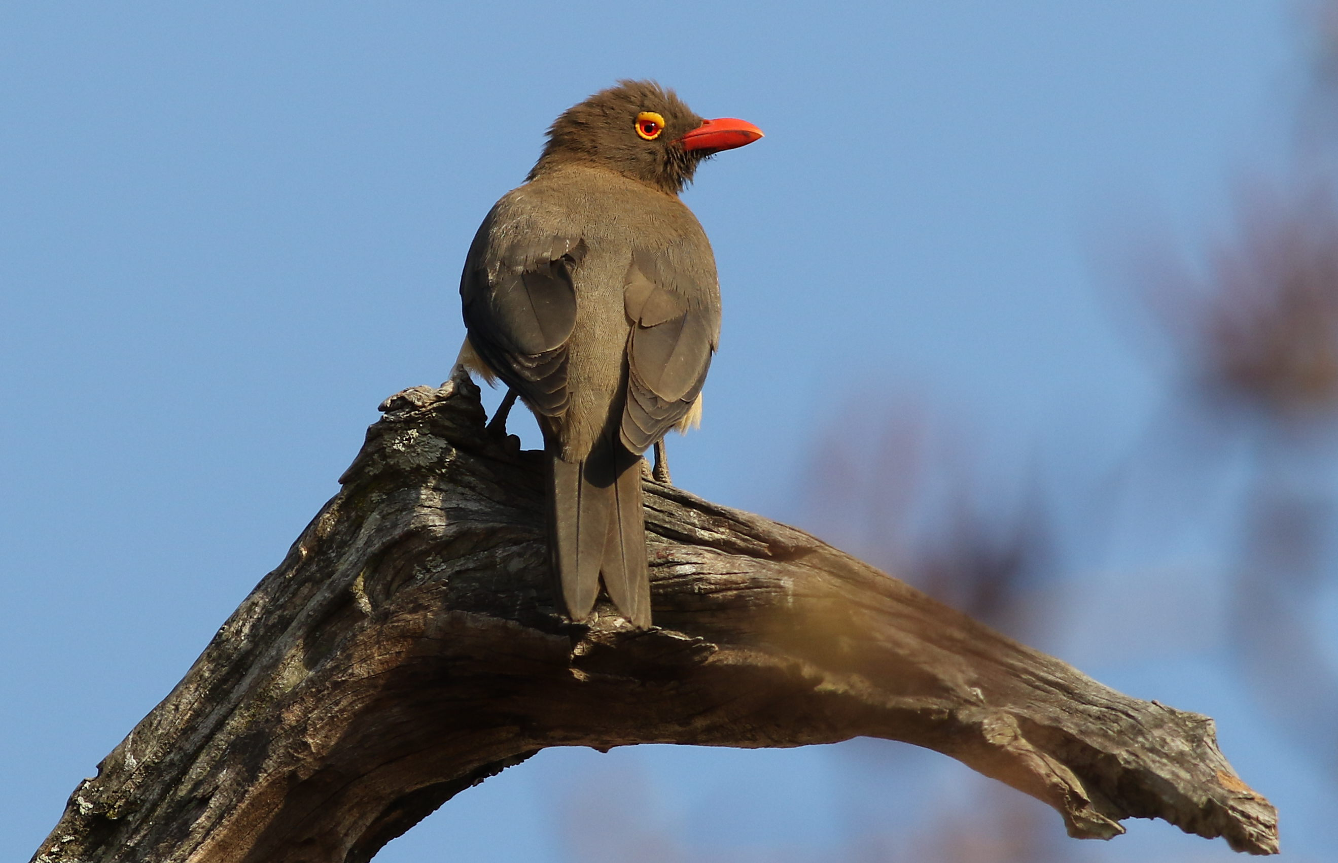 Red-billed Oxpecker, Buphagus erythrorhynchus, at Kruger National Park, South Africa